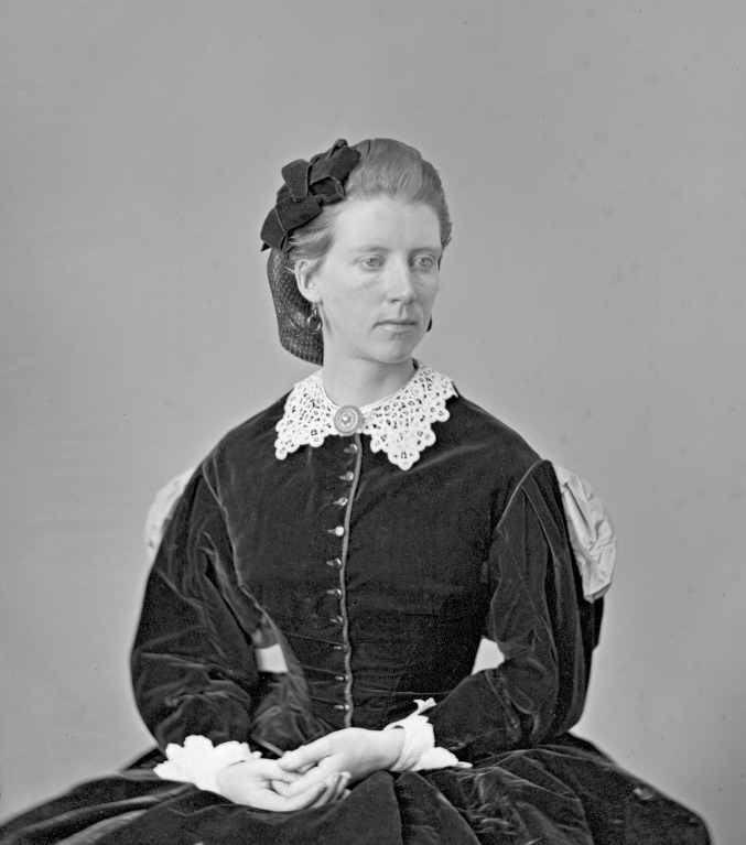 Photograph, Mrs. Edward (Frances Anne) Hopkins, artist, Montreal, QC, 1863, Silver salts on glass - Wet collodion process - 12 x 10 cm